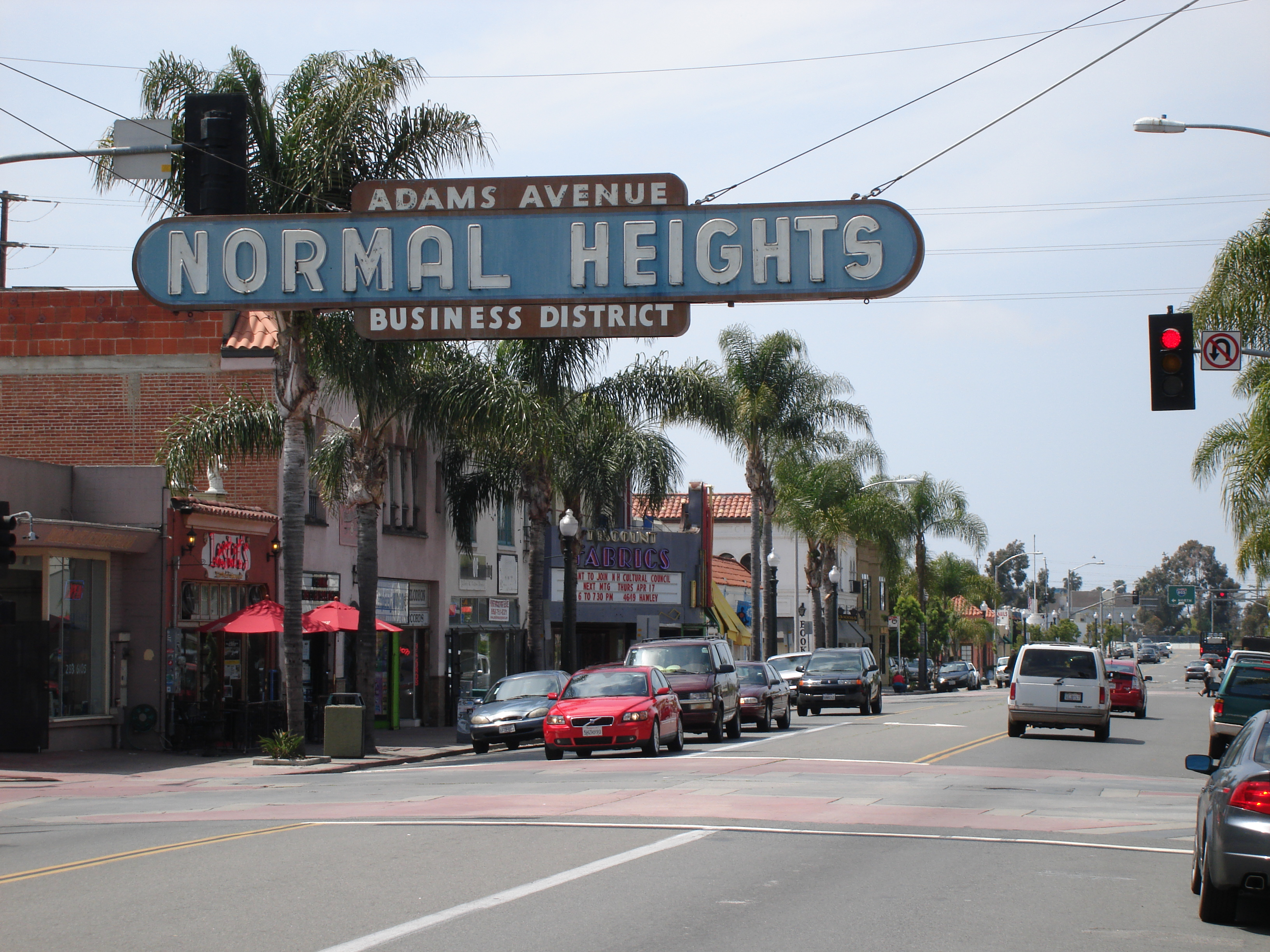 A view of the Normal Height sign from Adams Avenue